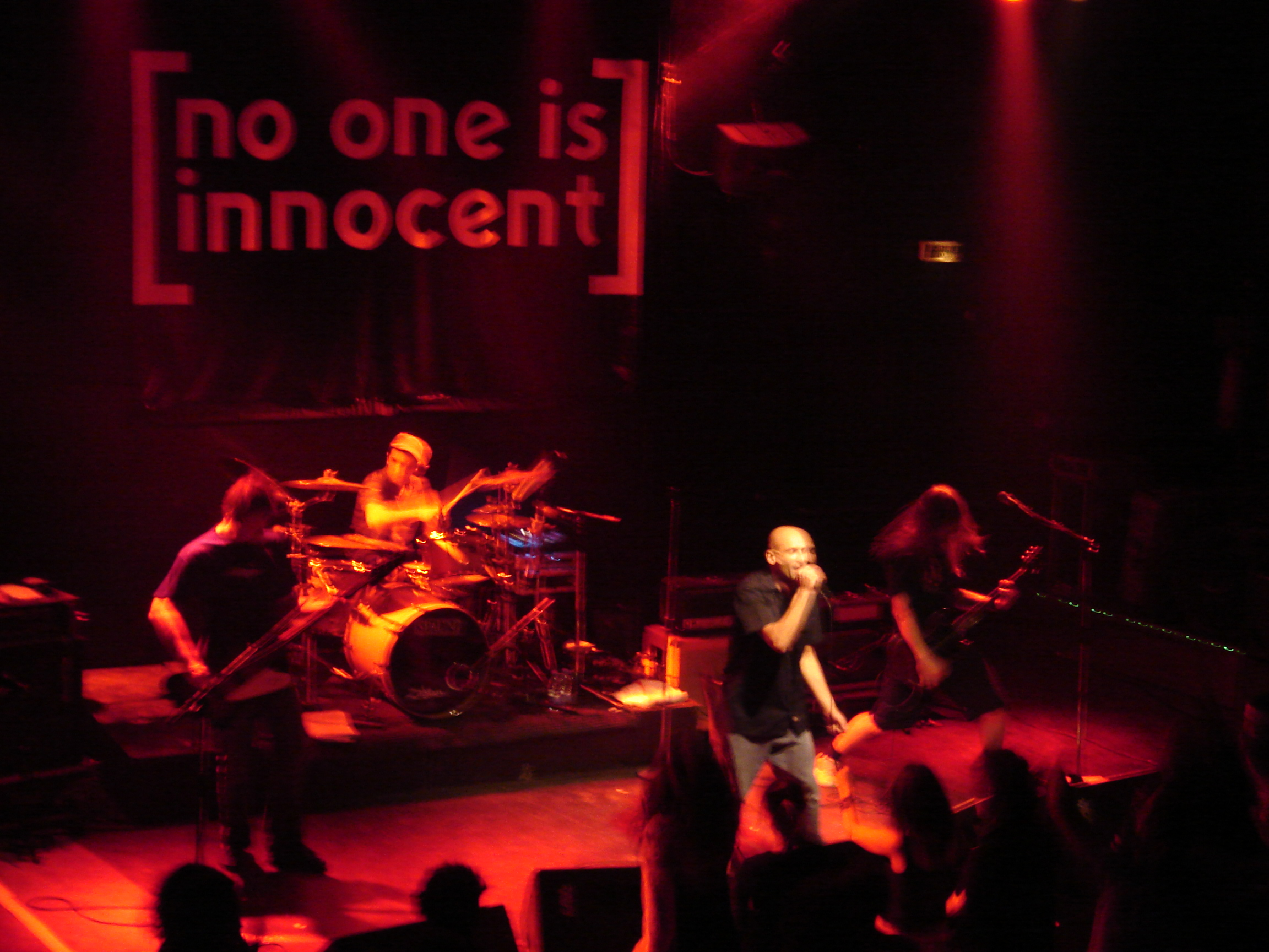 No One Is Innocent in concert, Callac, 17/11/2007